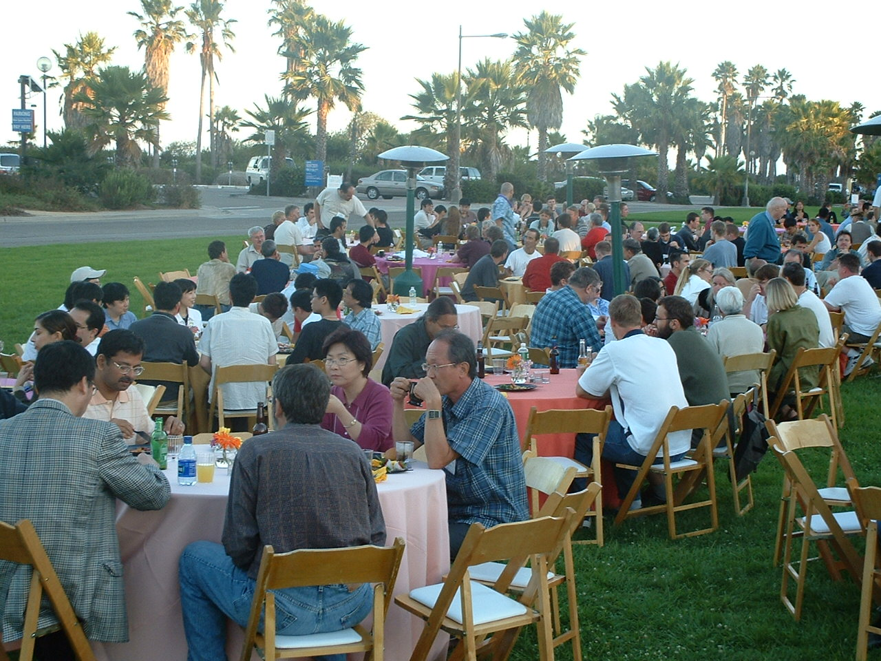 Reception of the CRYPTO 2003 conference. Taken by User:CryptoDerk.